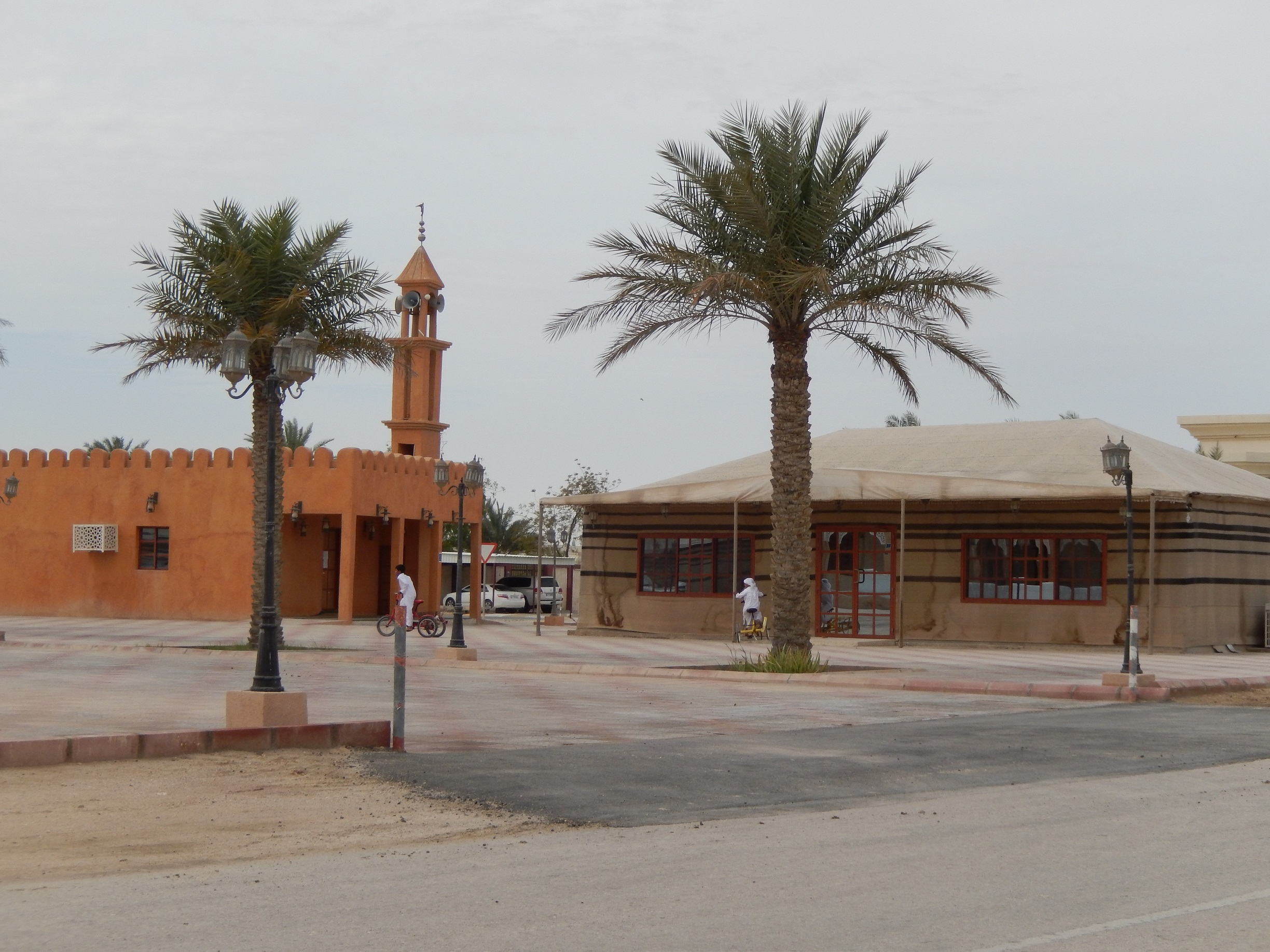 Centre of Al Khurayb (a village in the municipality of Al Rayyan, Qatar), with mosque.